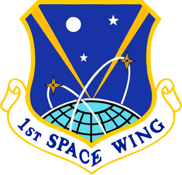 Emblem of the 1st Space Wing, an inactive wing of the United States Air Force